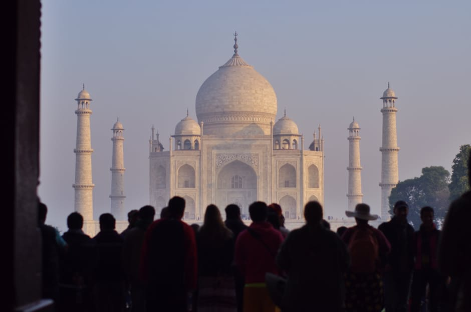 architecture-india-agra-delhi